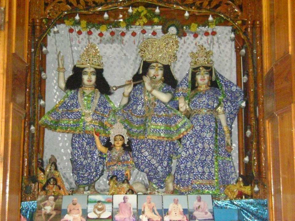 The deities Gauranga and Sri Radha-Vinona-bihari in the temple of Devananda Gaudiya Math.